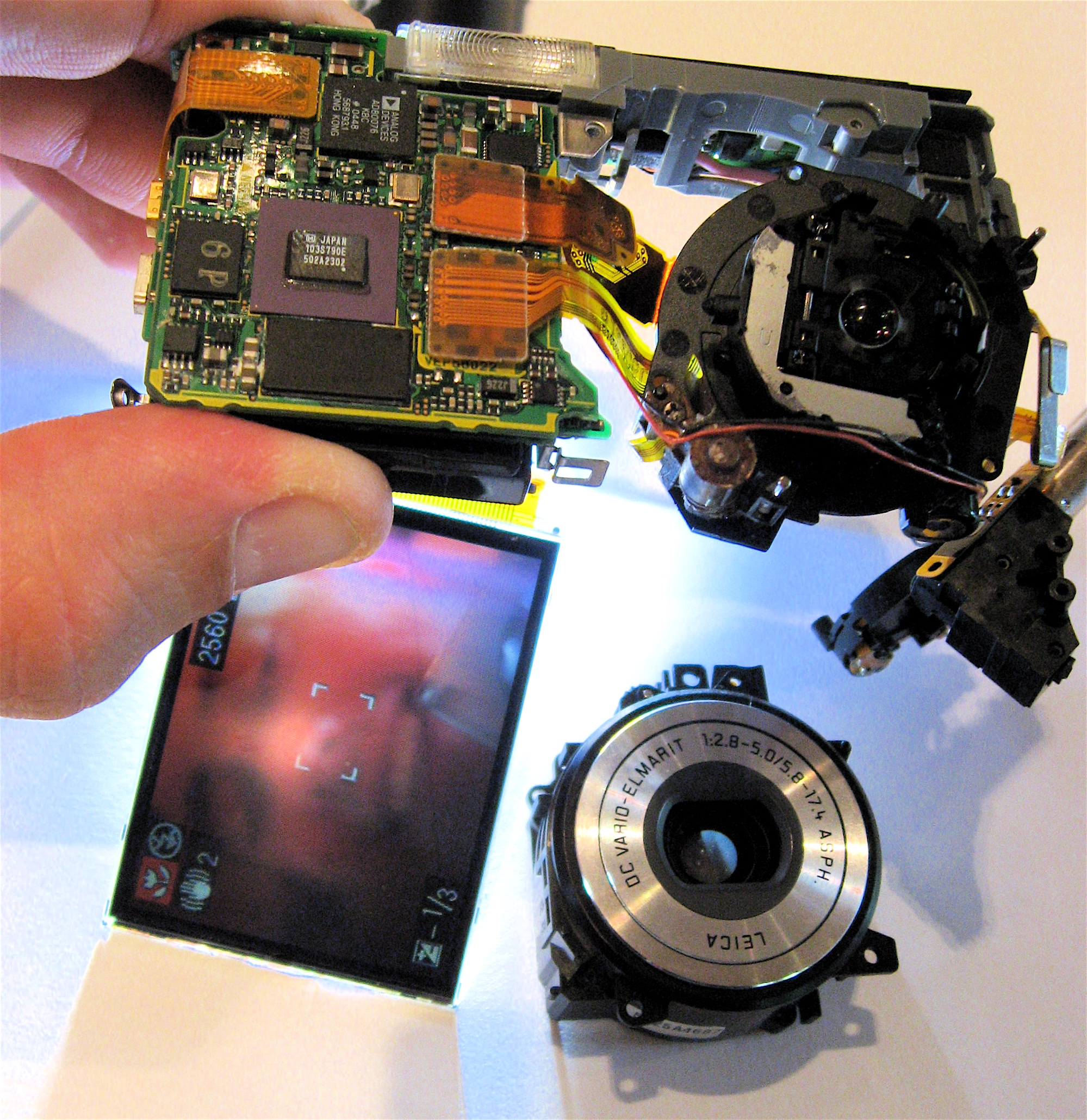 A partly disassembled Panasonic Lumix digital camera, with the front lens removed, but still functioning (see display).